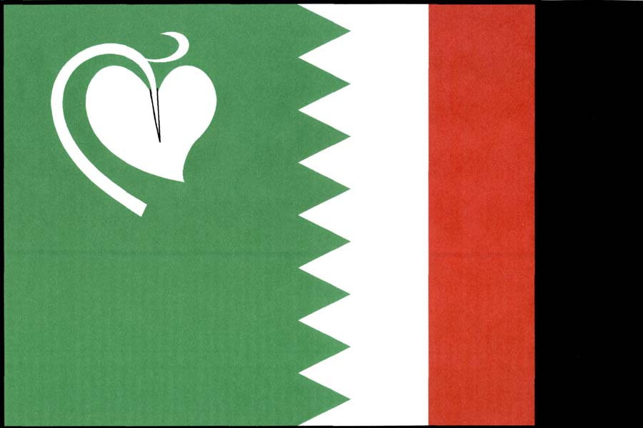 Municipal flag of Pila village, Karlovy Vary District, Czech Republic.